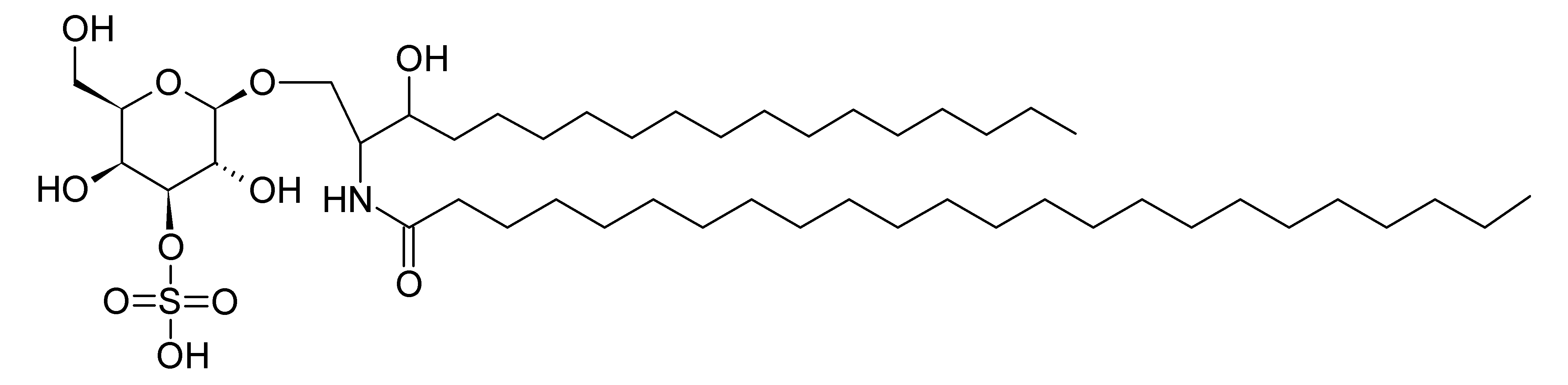 Comments High-resolution black/white .PNG made with ChemSketch and Photoshop — see WikiProject Chemistry - structure drawing for detailed instructions. Please drop me a note if you need the source file. Category:Chemical structures